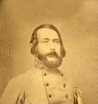 Alexander Galt Taliaferro, the American Civil War Museum, Richmond